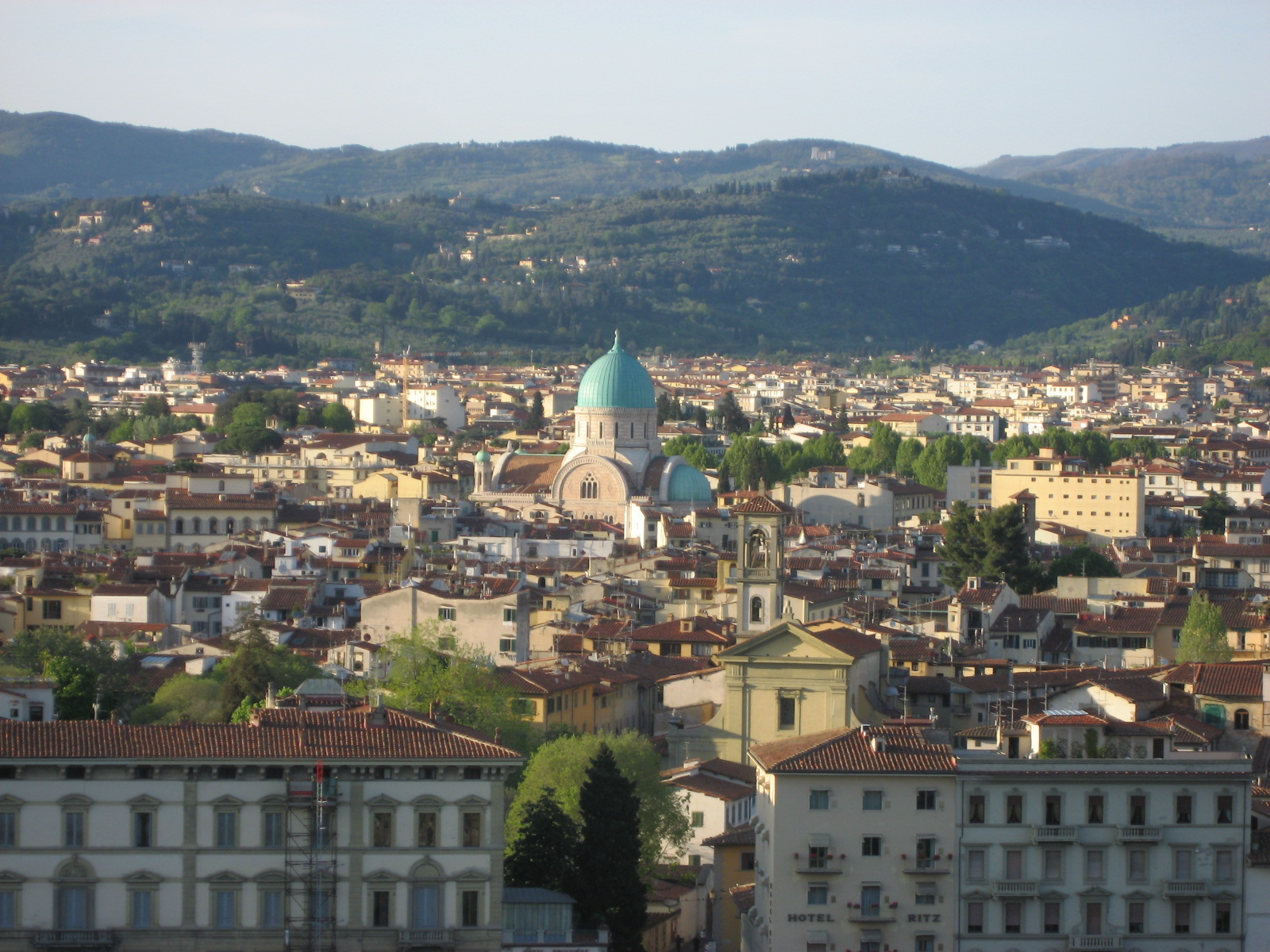 Synagogue of Florence